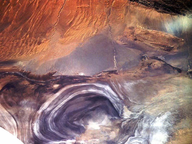 Desert Lop Nur, Xinjiang, China: Satellite picture of the Helix of the former sea Lop Nur.